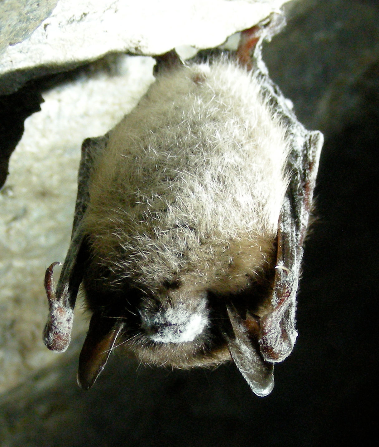 Little brown bat with white-nose syndrome in Greeley Mine, Vermont, March 26, 2009.